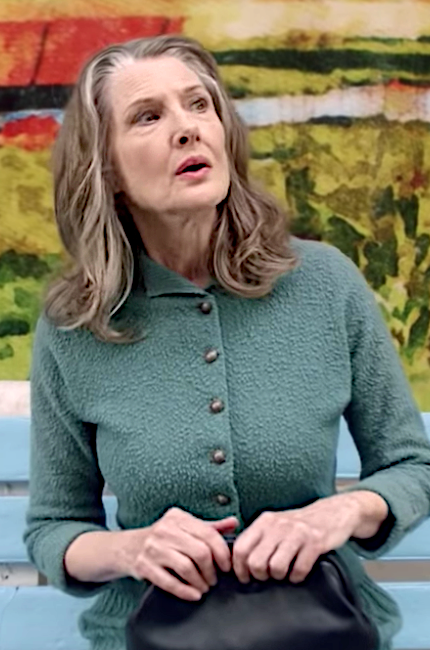 Annette O'Toole in the 2020 Kidding episode "This Is for Them"